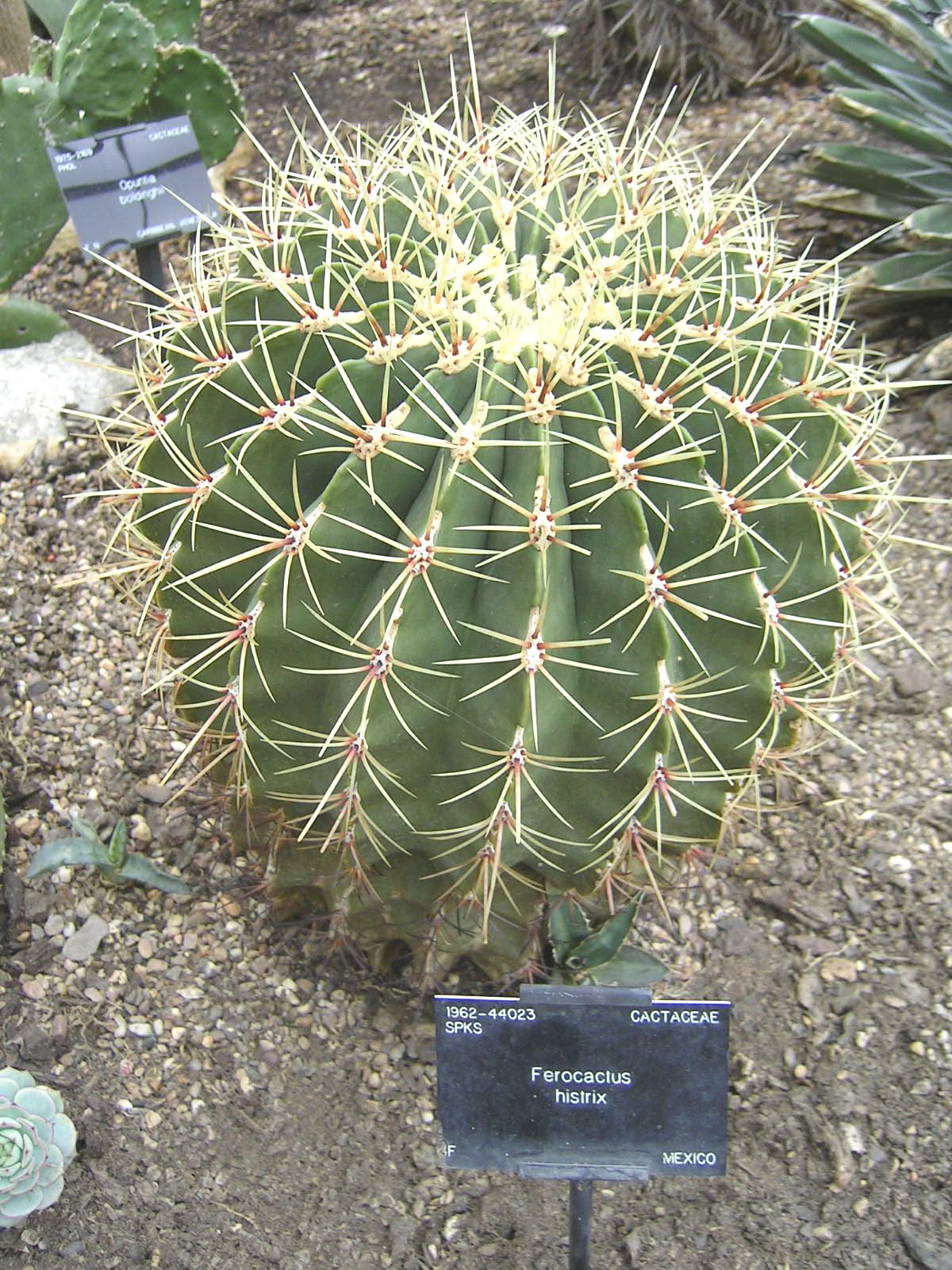 Ferocactus histrix at Kew Gardens